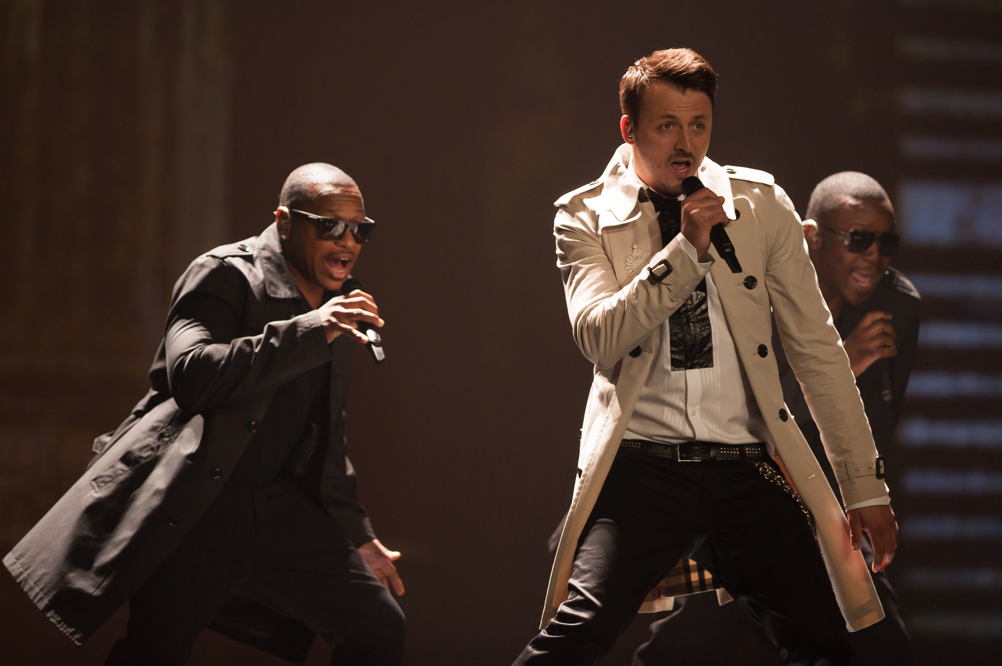 Eurovision Song Contest Vienna 2015: Daniel Kajmakoski